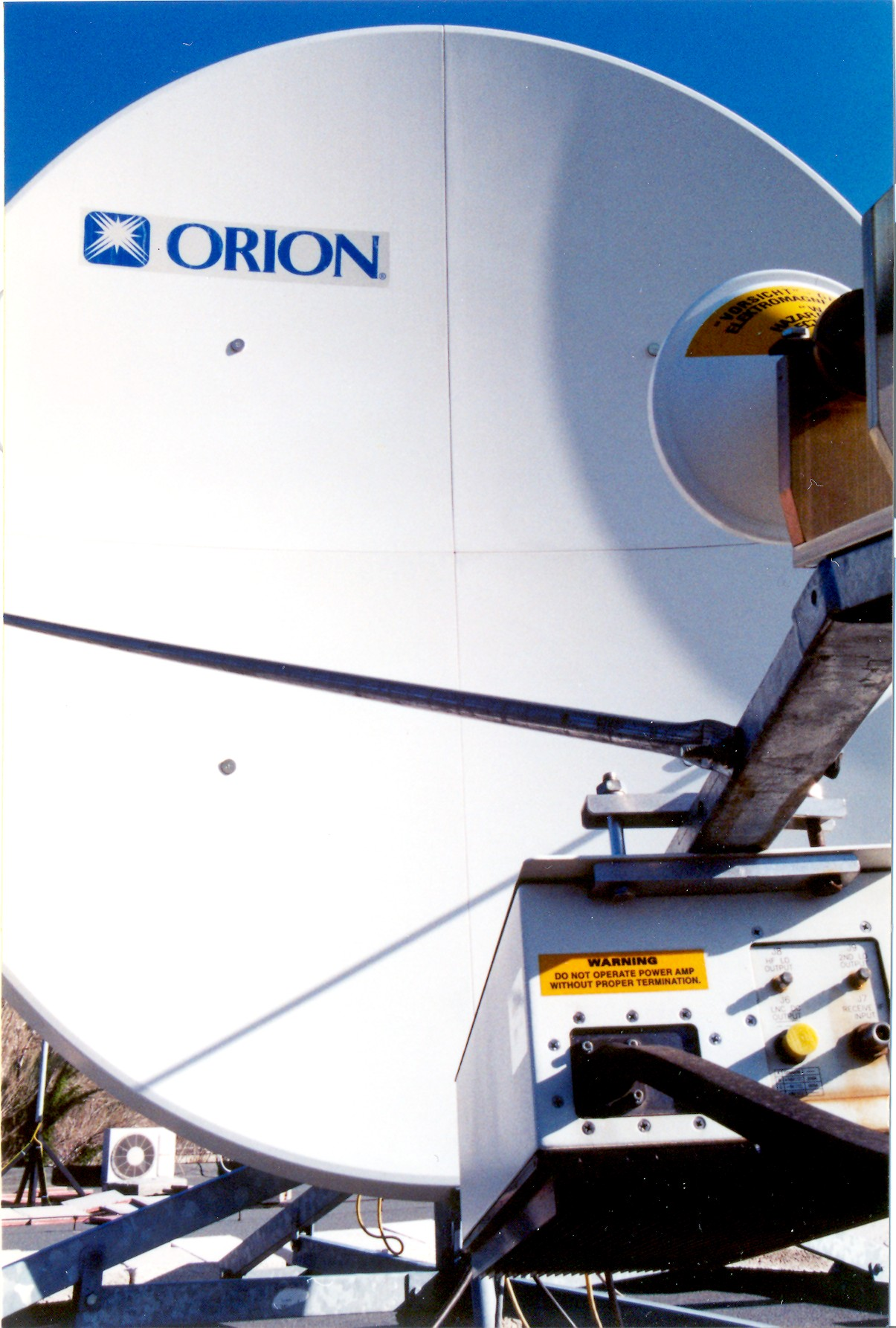 A 2.5m parabolic dish antenna for bidirectional high-speed satellite Internet.